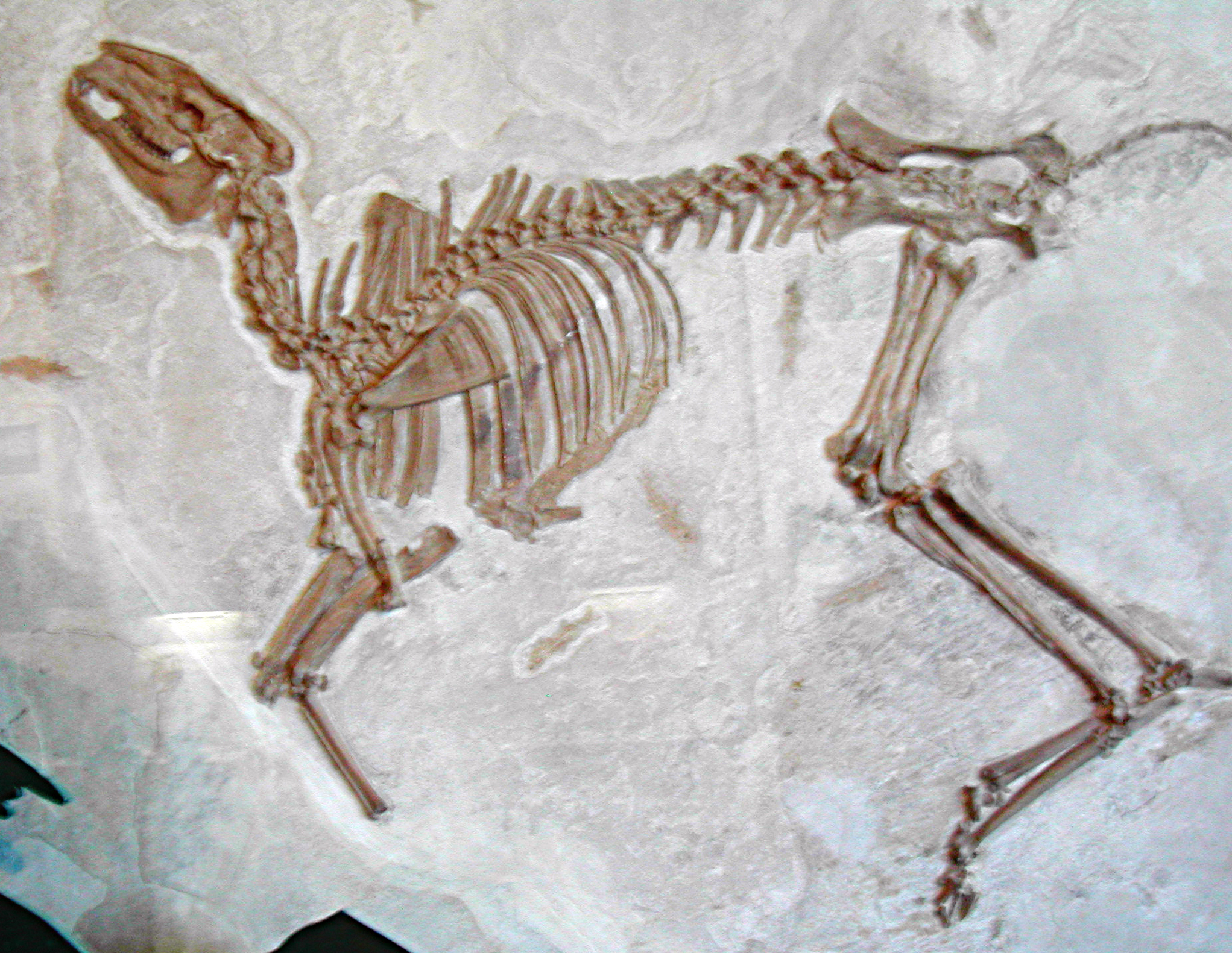 This animal lived 40 million years ago. Named bachitherium in 1883 by Henri Filhol, the only existing complete fossil was discovered in Vachères in the Alpes de Haute Provence and is still exposed